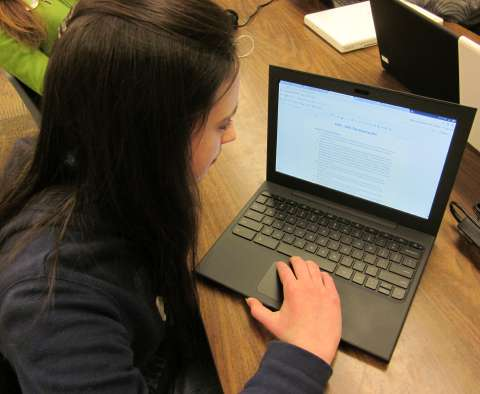 One picture of a group of pictures offered by Mr. Jeff Billings, IT Director, PVUSD. Parents have granted permission to the Paradise Valley Unified School District to have the students’ pictures taken and used for publications.